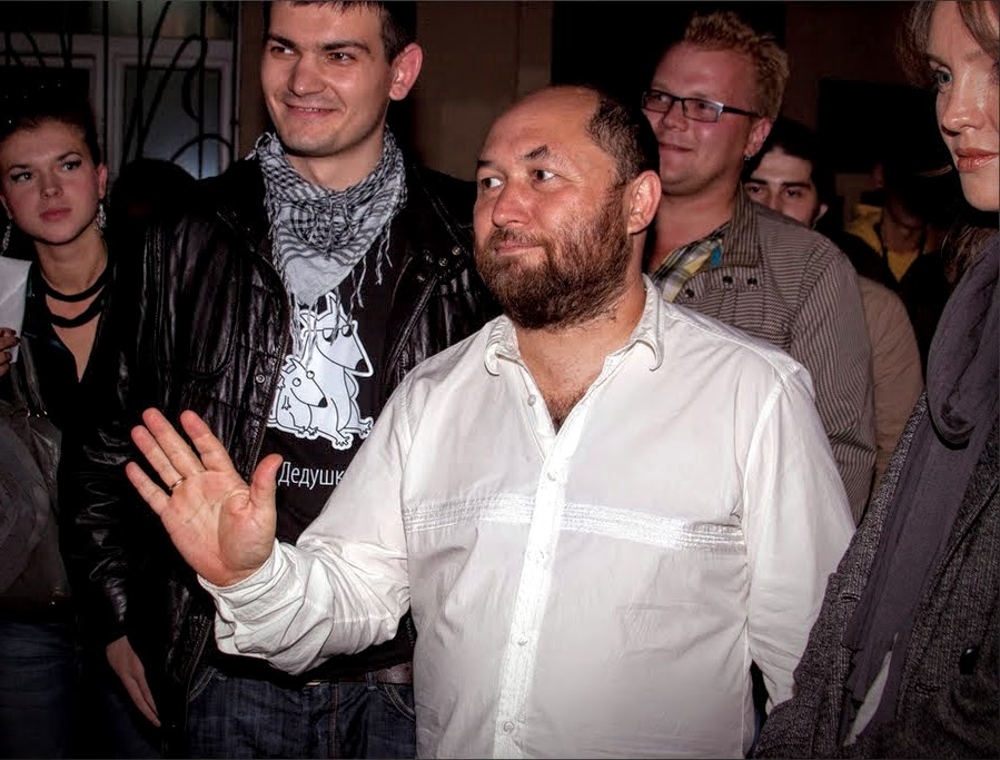 Bekmambetov meeting visitors on premiere of film 9